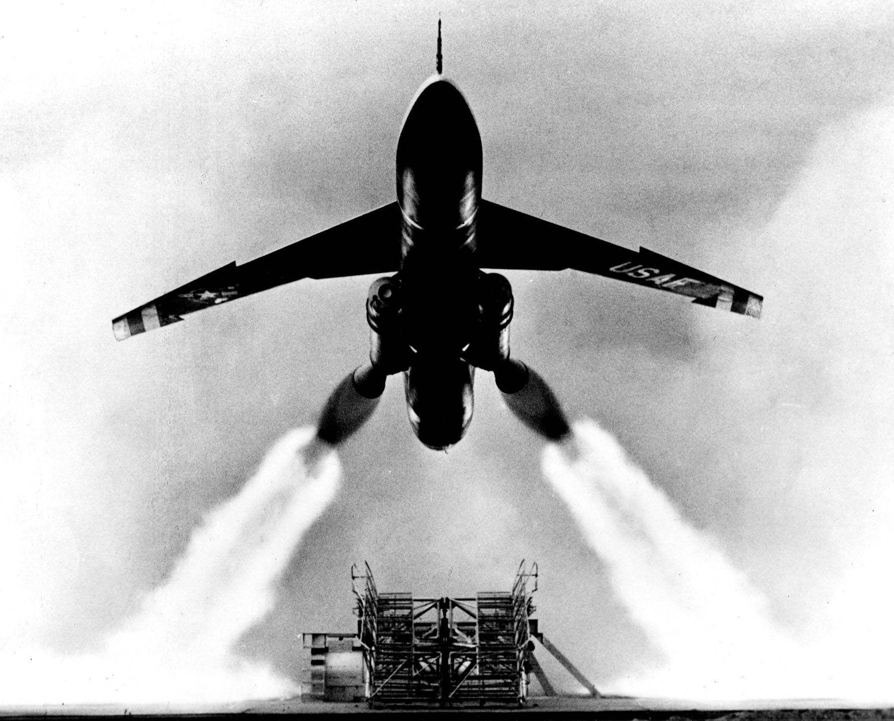 Northrop SM-62 Snark